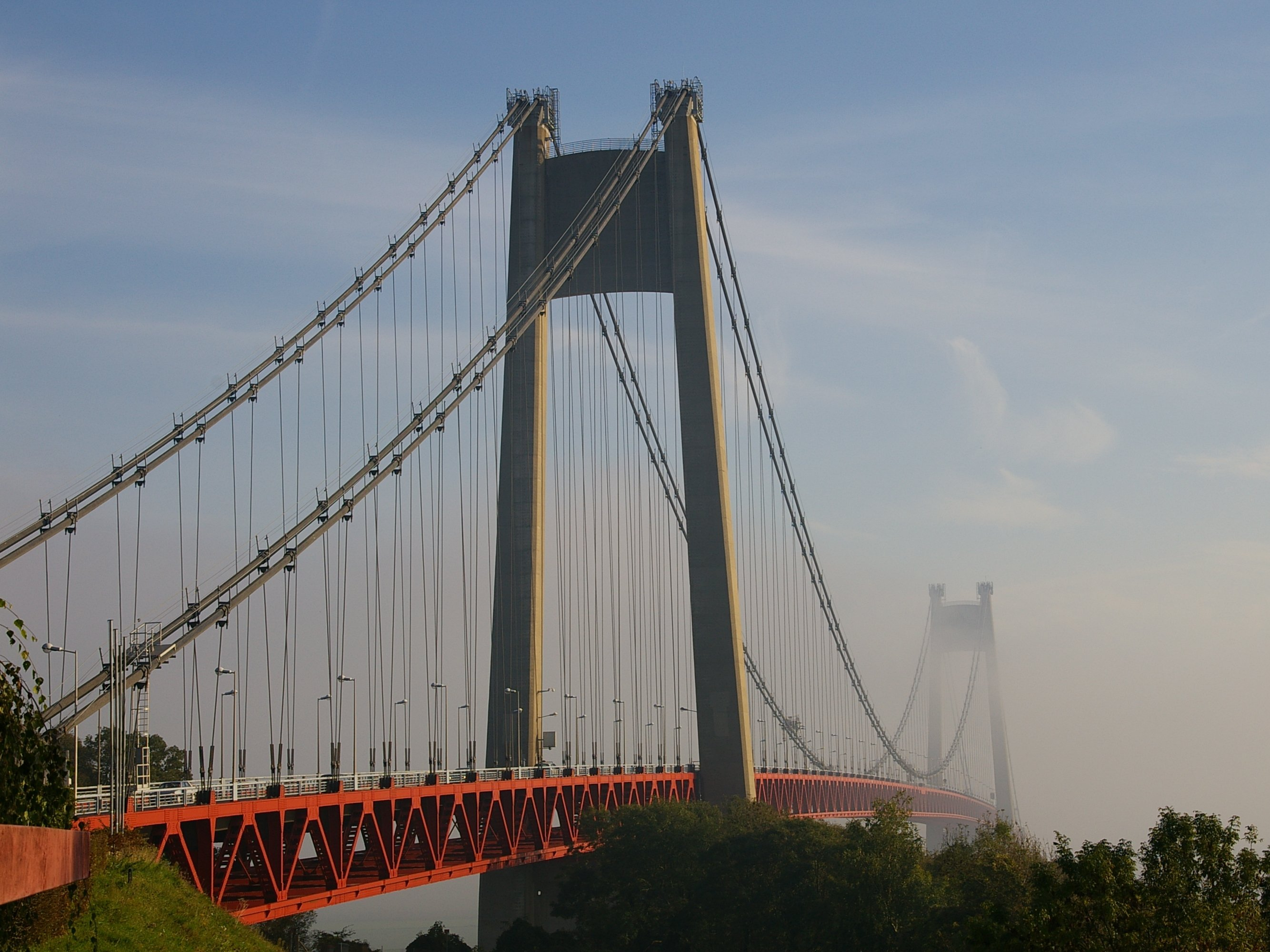 The Tancarville Bridge spans the Seine River between Tancarville (Seine-Maritime) and le Marais-Vernier (Eure), in France